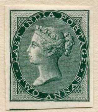 The New De La Rue Design for the Recess Printed Stamps Illustration: 1856 Imprimatur, 2 annas Bottle Green (unissued)